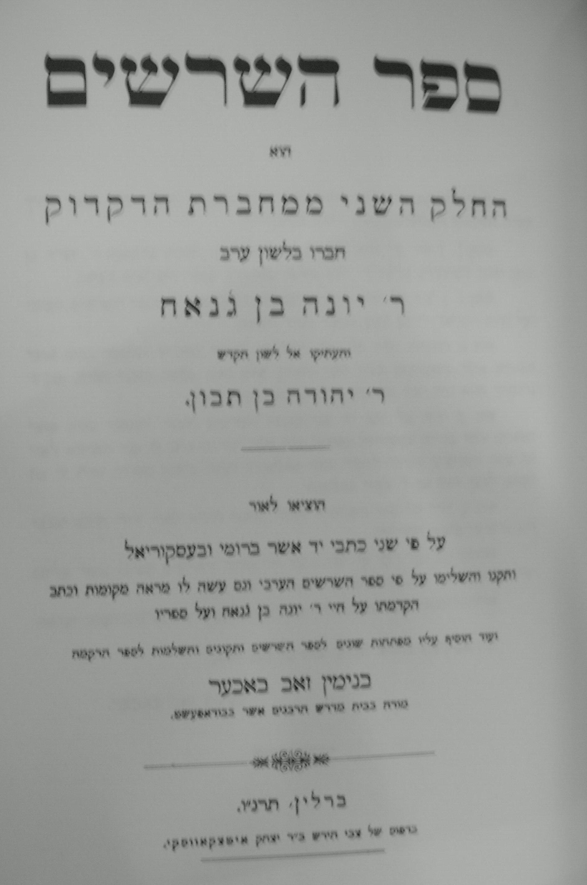 Jonah ibn Genach's book - Book of the Roots